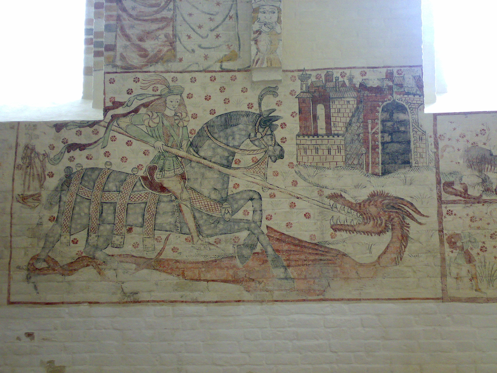 St georg and the dragon, Nibe Church, Denmark